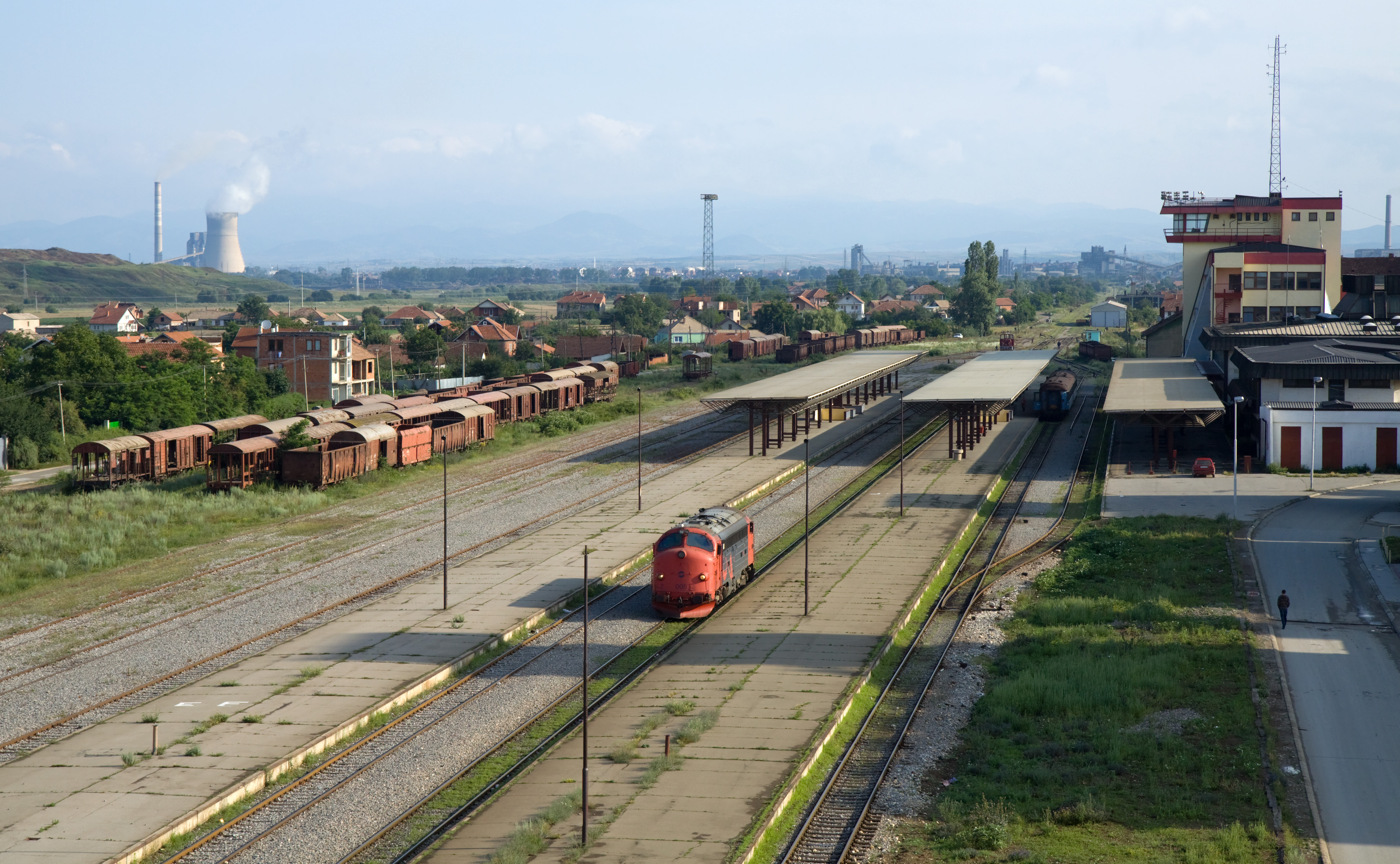 Fushë Kosovë/Kosovo Polje, the largest railway station and headquarters of Kosovo Railways. The locomotive is a former NSB Di 3a, now Kosovo Railways 005. The newer coal power plant of Obiliq can be seen in the background.